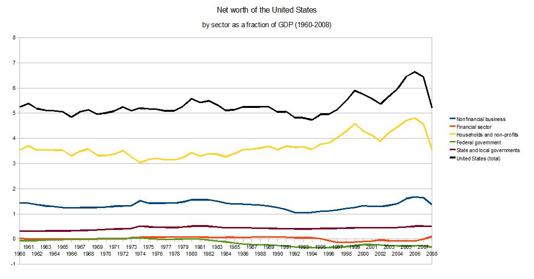 A graph depicting the net worth of the United States as a whole and by sector using data from [1]. Nonfinancial business is defined as the sum of nonfarm nonfinancial corporate business, nonfinancial noncorporate business, and farm business. This is consistent with the definition used in the Flow of Funds. To calculate the net worth of nonfinancial business, the net worth of the three component sectors were summed. No data is available for the tangible assets of farm business. Therefore the estimate for the net worth of nonfinancial business is underestimated (although probably not by much) The net worth of the United States is the sum of all five constituent sectors.